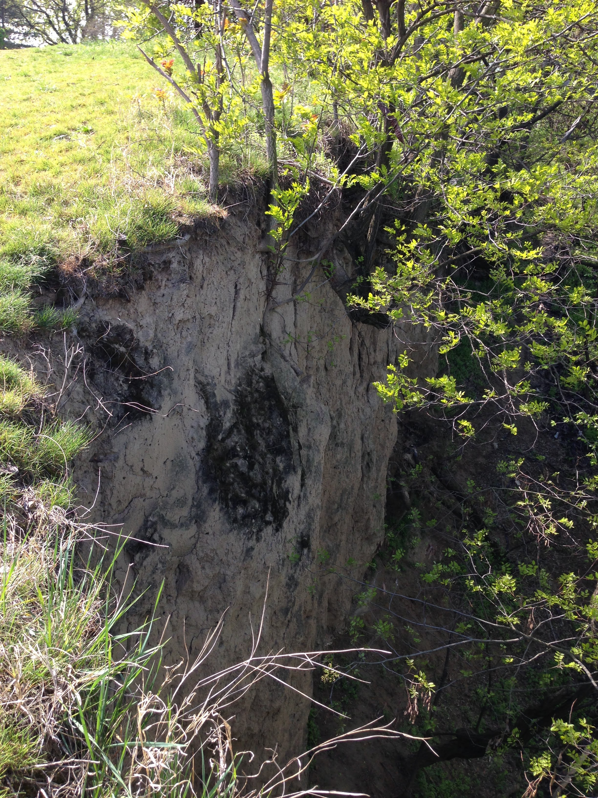 Calvary Park. Zemun, Serbia